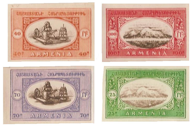 Armenian Postage Stamps. Noted Artist Archak Fetvajian (1866-1942) designed the currency and postage stamps for the first republic of Armenia (1919-1921).